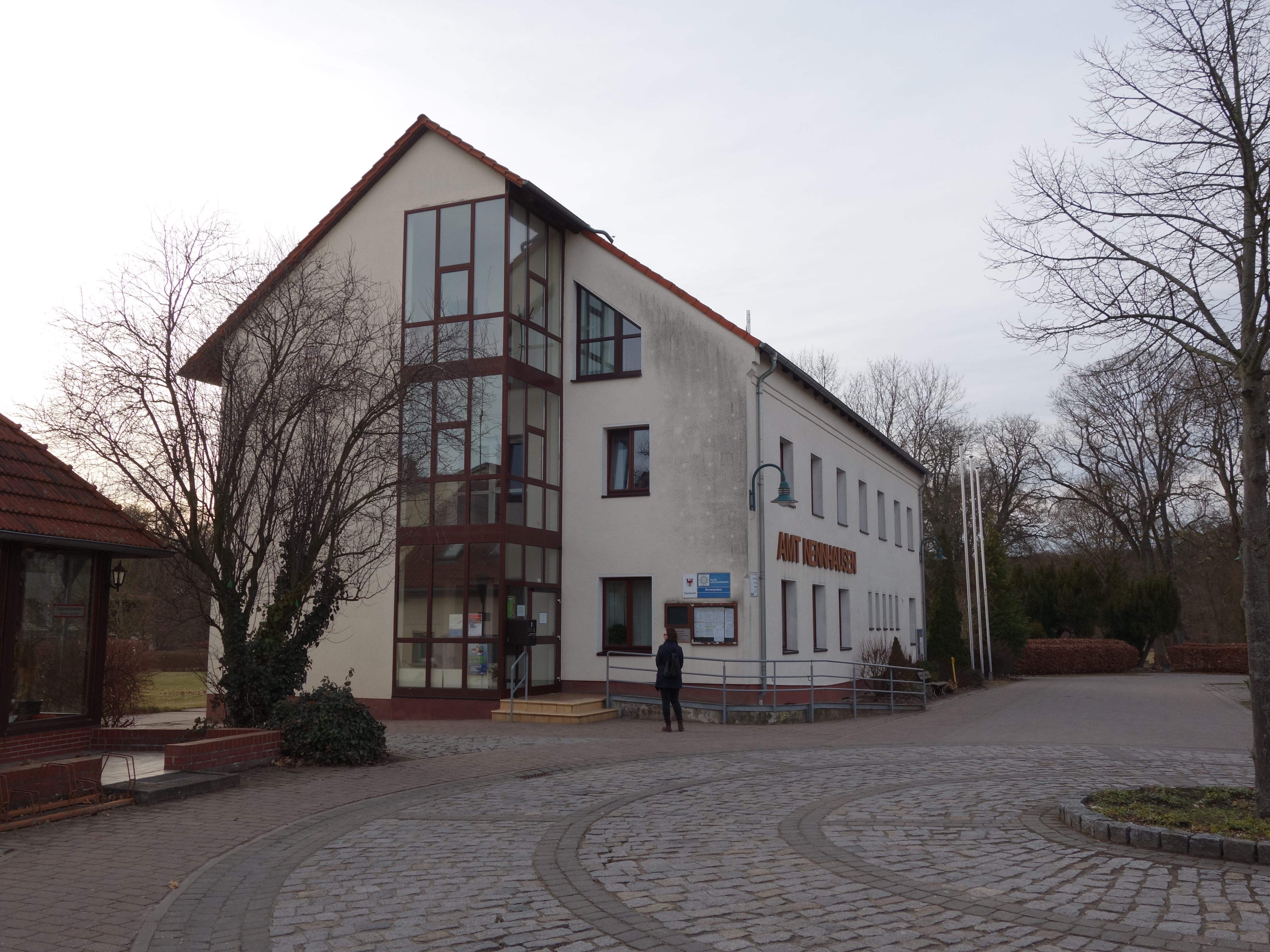 Eastern view of office building of Amt Nennhausen, Nennhausen municipality, Havelland district, Brandenburg state, Germany.